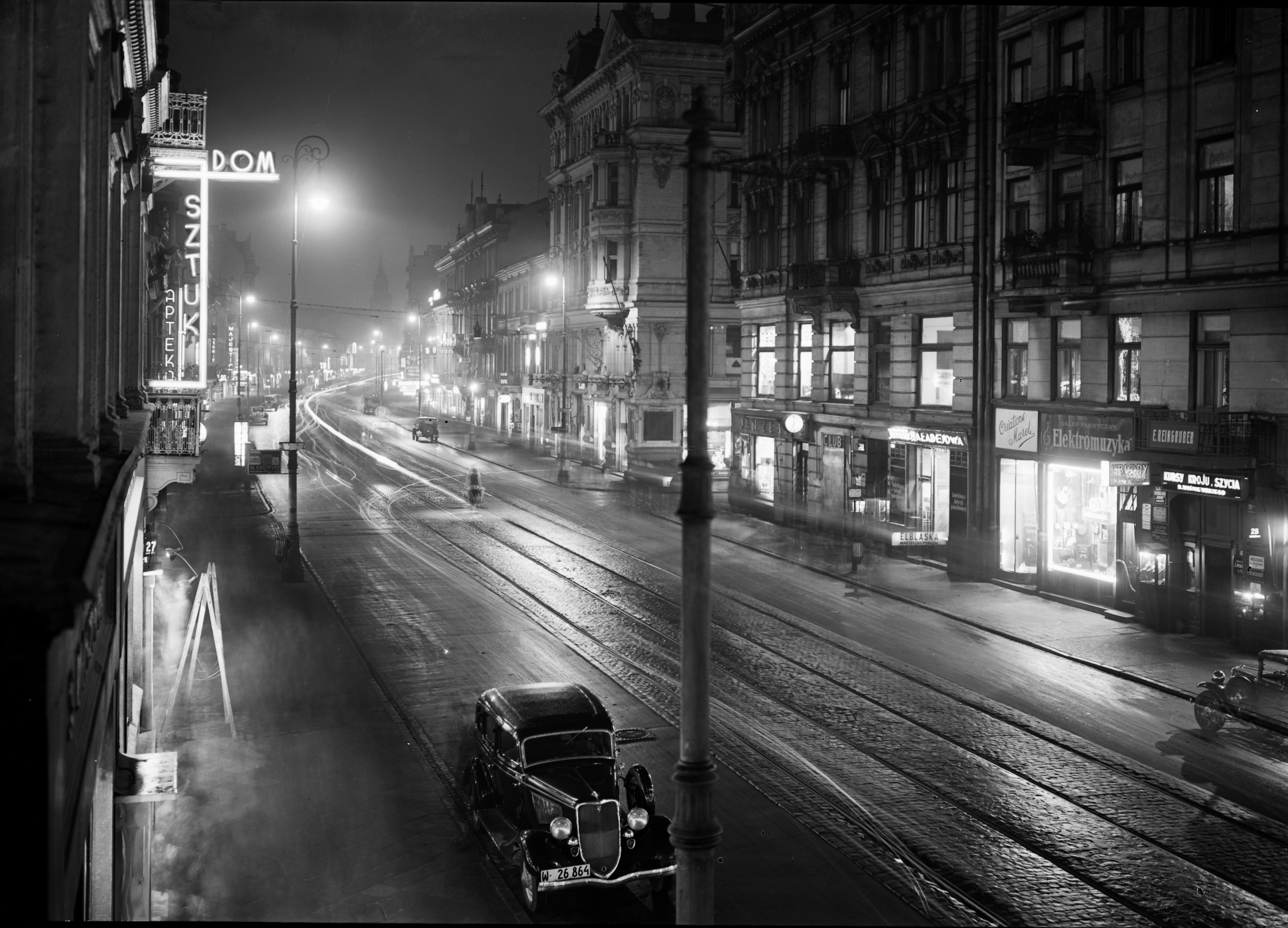 Warsaw by night, Nowy Świat Street. Poland 1935